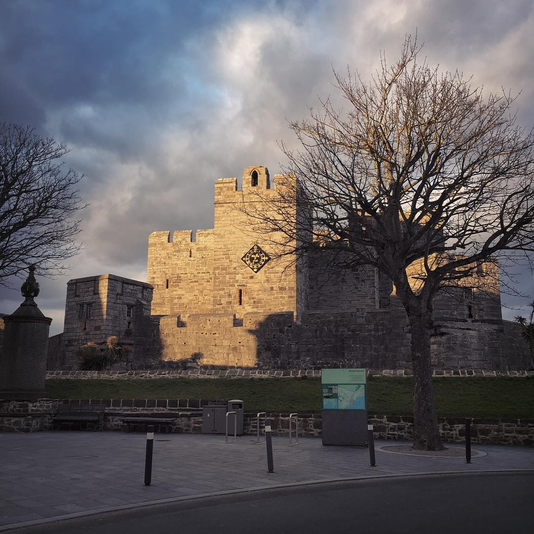 South-side of Castle Rushen, taken from Market Square during the winter.